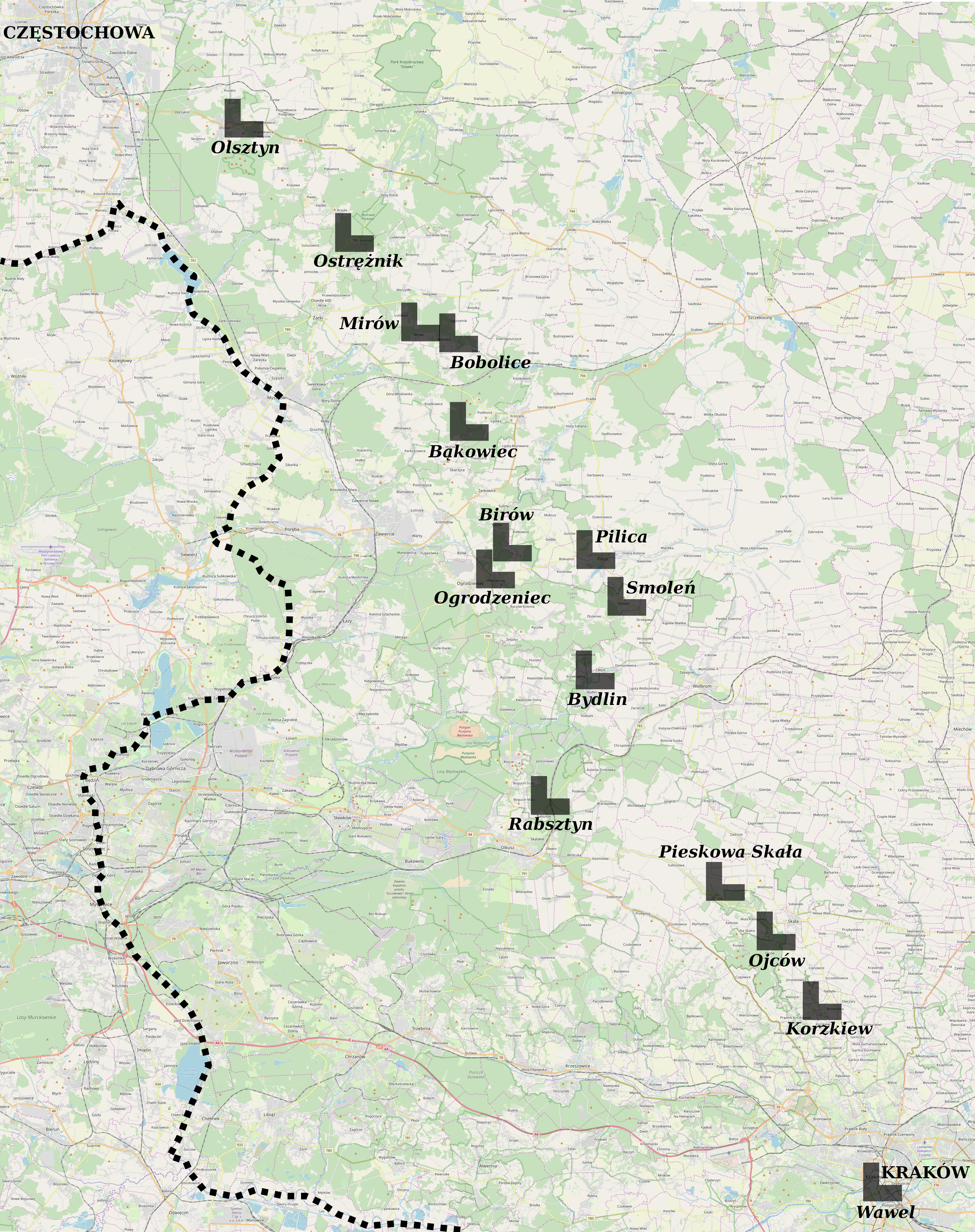 Castles of the Eagles' Nests (dotted line medieval border between the Bohemian Crown (with the duchy of Siewierz) and the Polish Crown